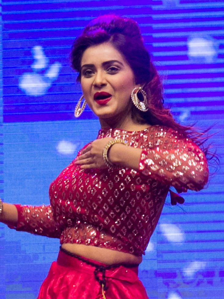 Tanjin Tisha is dancing with Ferdous Ahmed at The Palace Luxury Resort, Bahubal, Habiganj.